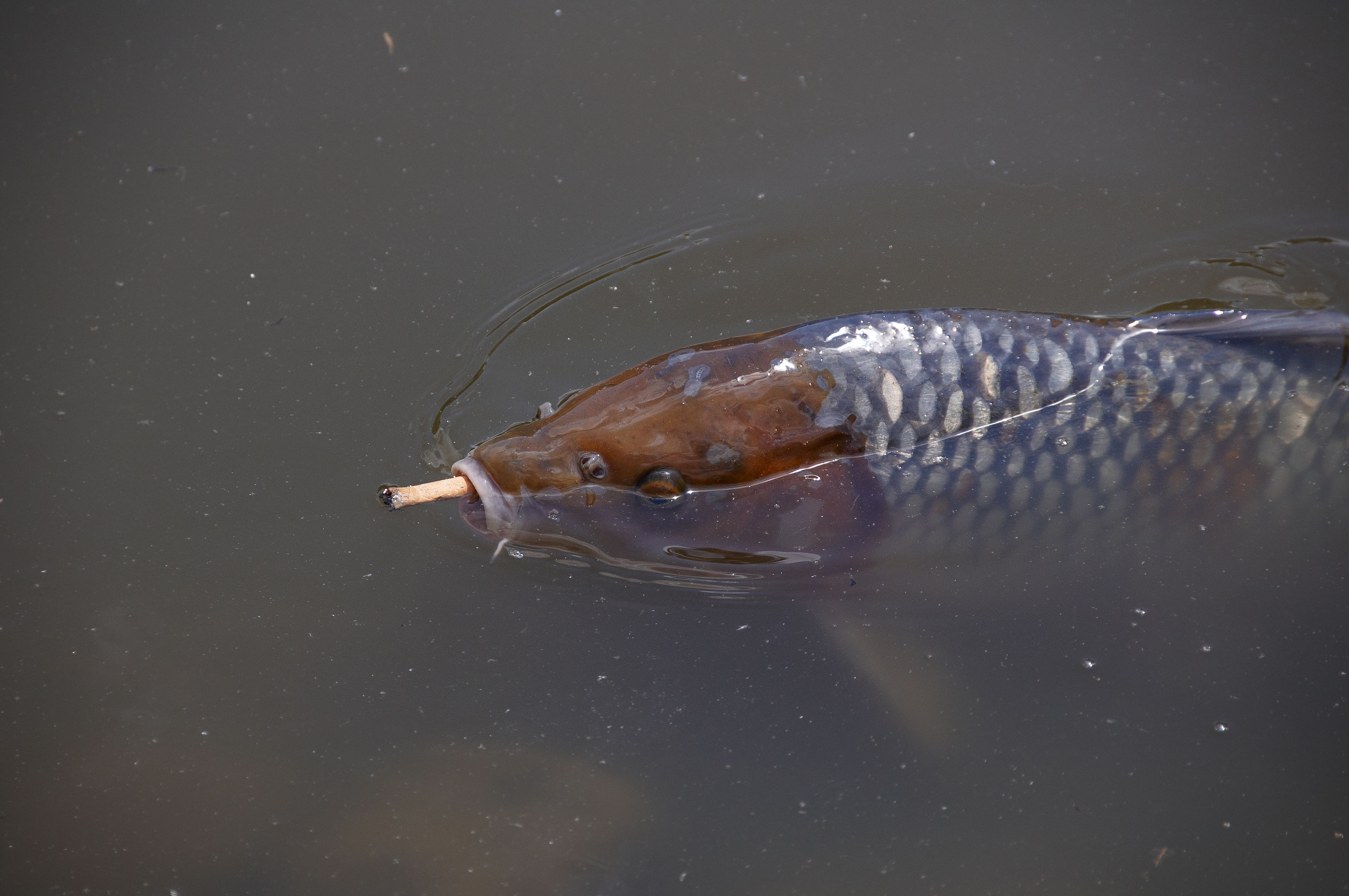 Cyprinus carpio (smoking?)